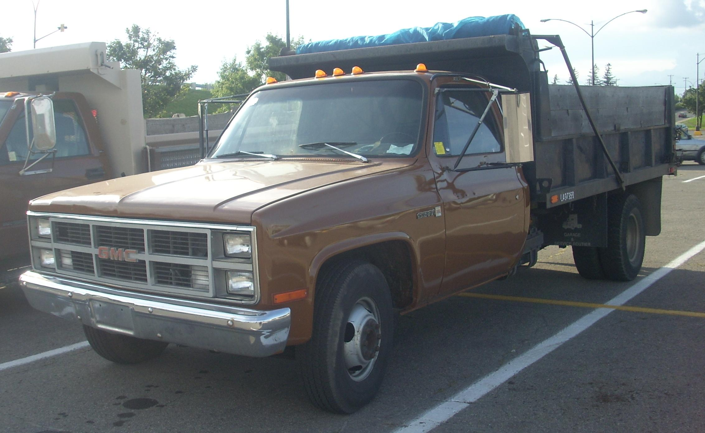 1983-1984 GMC C/K photographed in Montreal, Quebec, Canada.